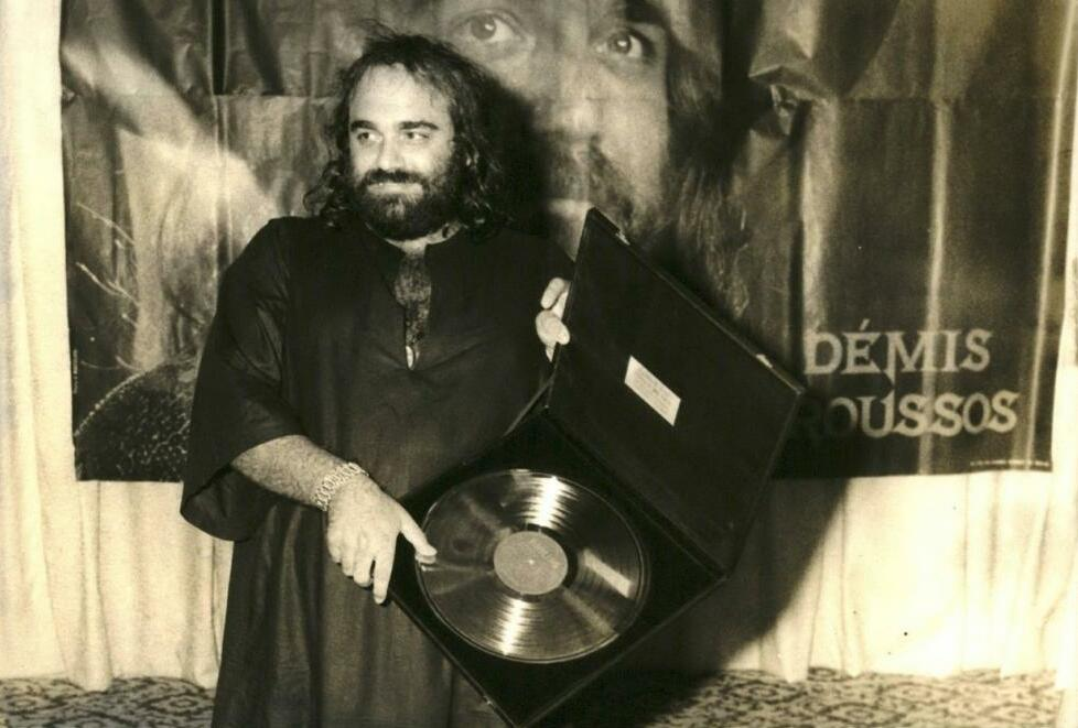 Greek singer Demis Roussos.